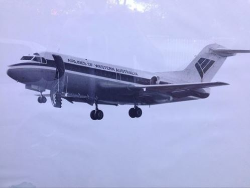 Airlines of Western Australia F28 VH-FKA door open Perth 1983